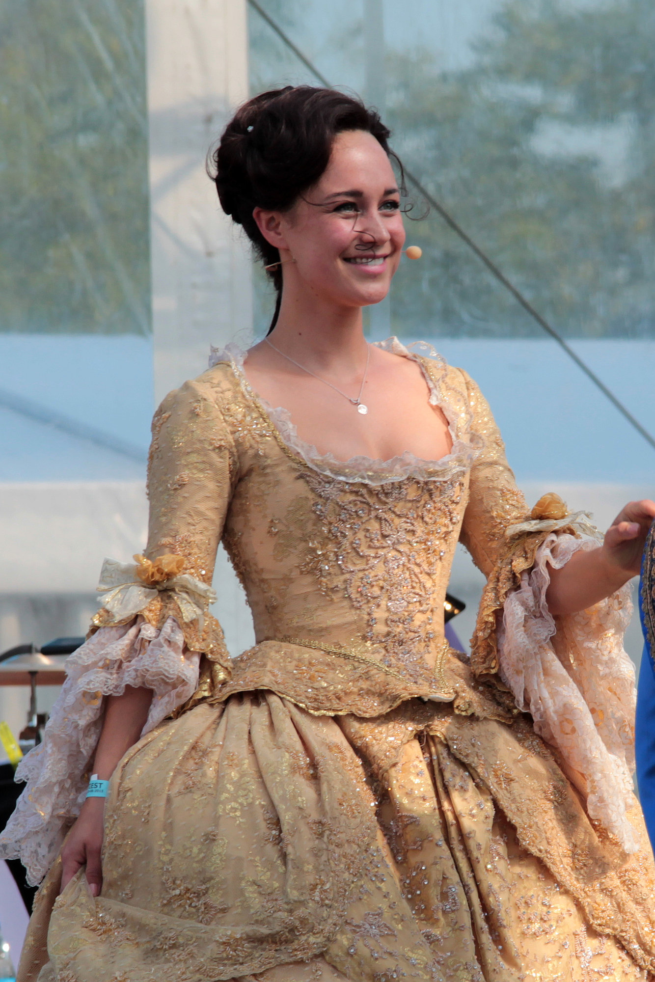 Anouk Maas as Belle (Belle en het Beest / Beauty and the Beast) during rehearsals for the musical singalong at the Uitmarkt 2015 in Amsterdam.